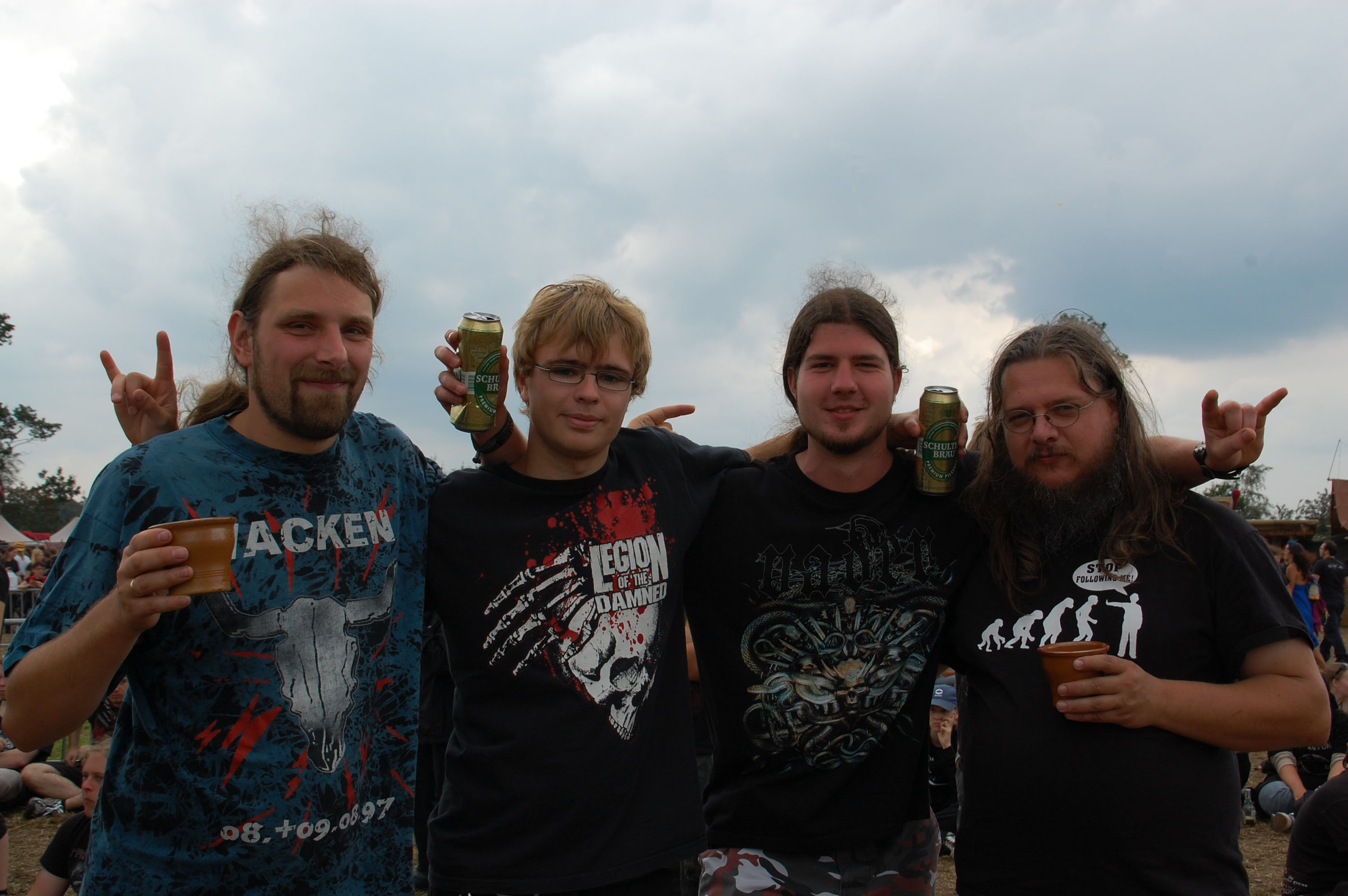 Four Wikipedians at Wacken Open Air 2011